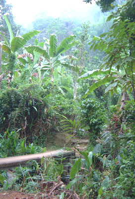 Kitulgala, my photo